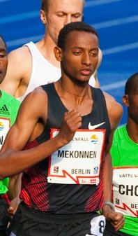 Mekonnen Gebremedhin during 2011 ISTAF in Berlin